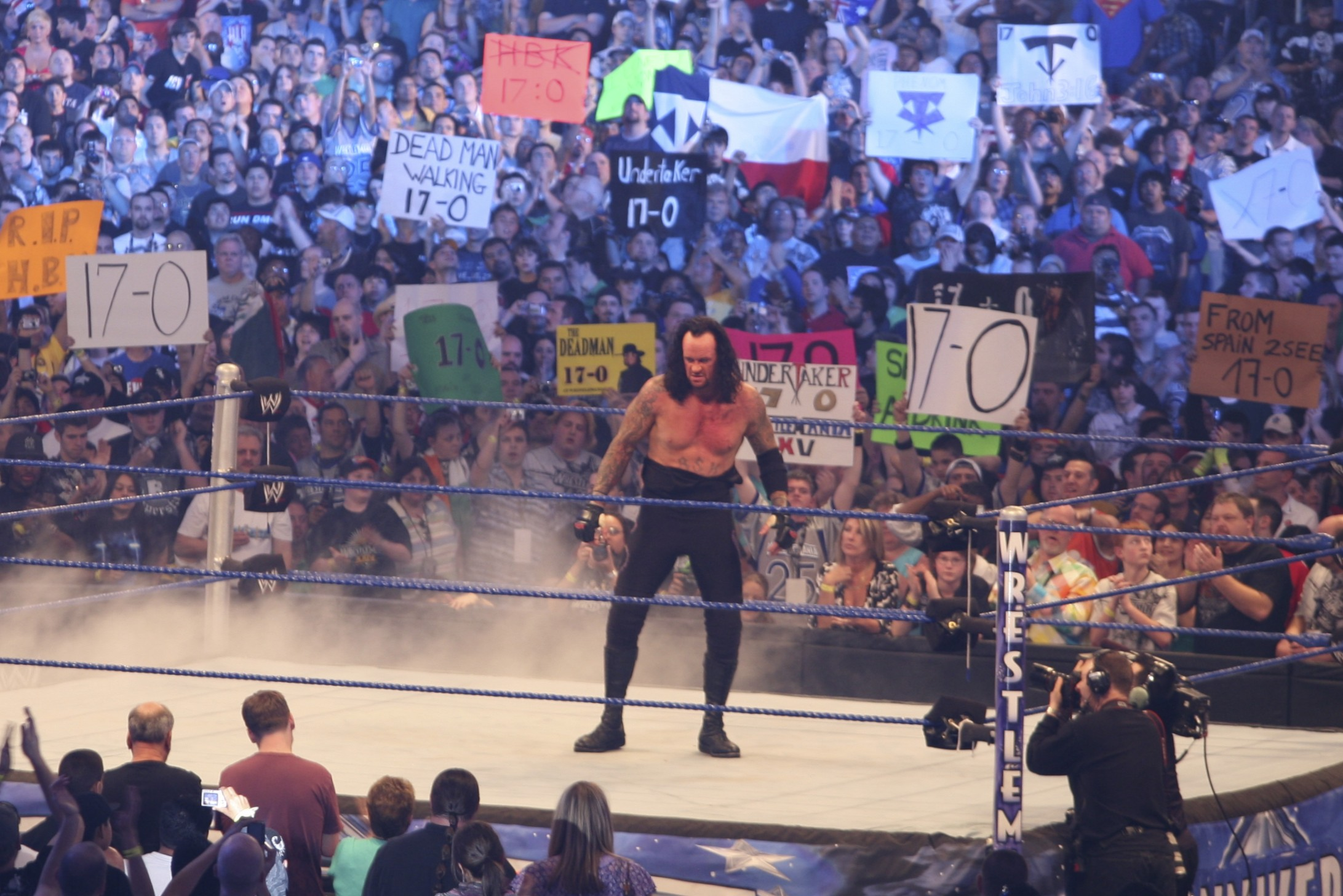 Mark Calaway aka The Undertaker, at Wrestlemania 25 at Reliant Park in Houston Texas 2009